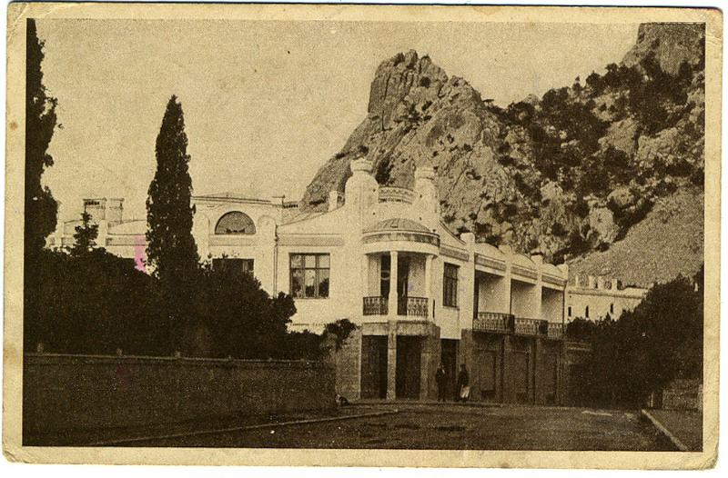 "Bolshoi Bogdan" house in Novyi Simeiz (Crimea) of Nikolai Bogdanov, a member of the second Russian State Duma